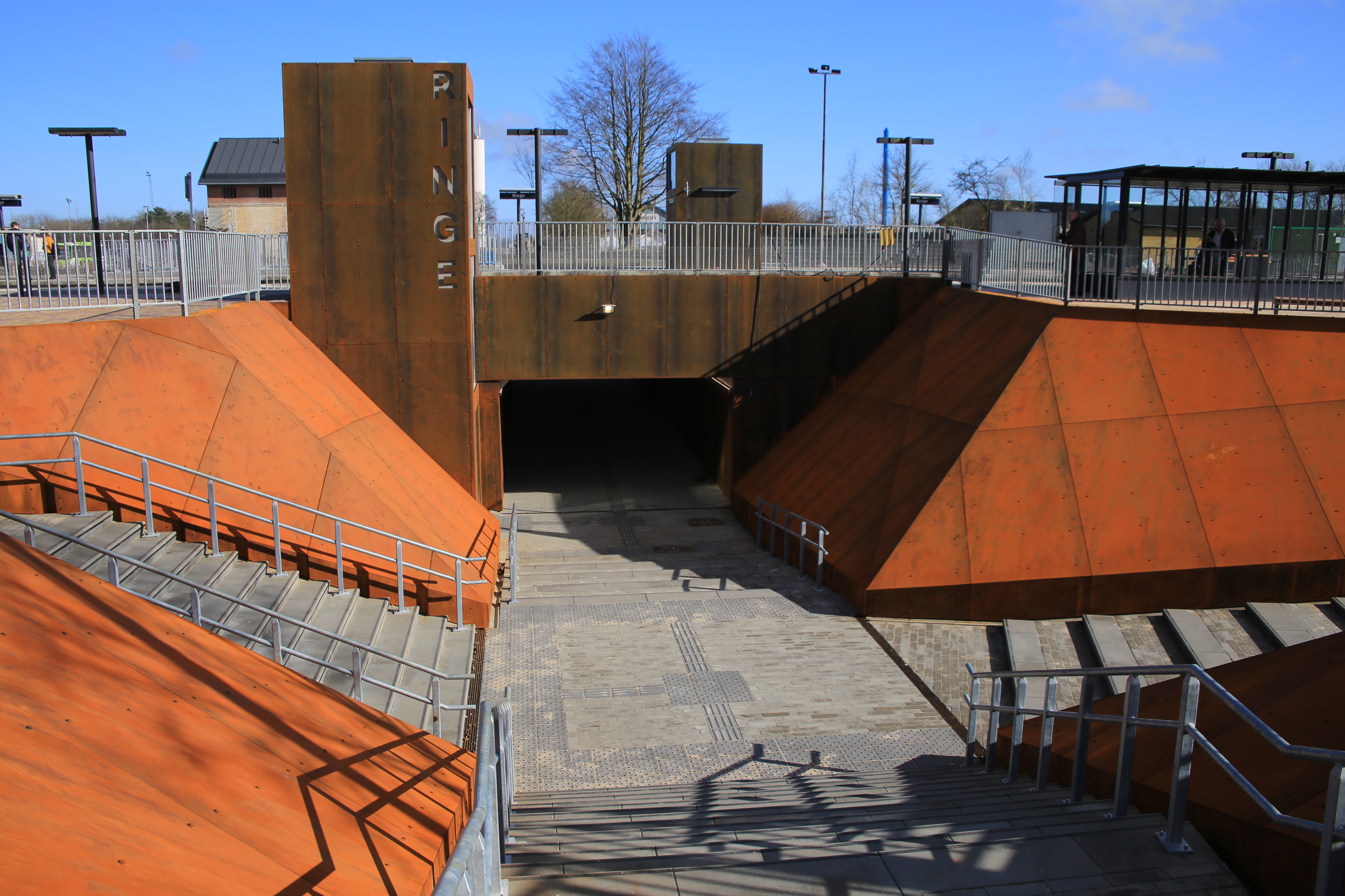 The new tunnel at the railroad station in Ringe, Funen, Denmark.